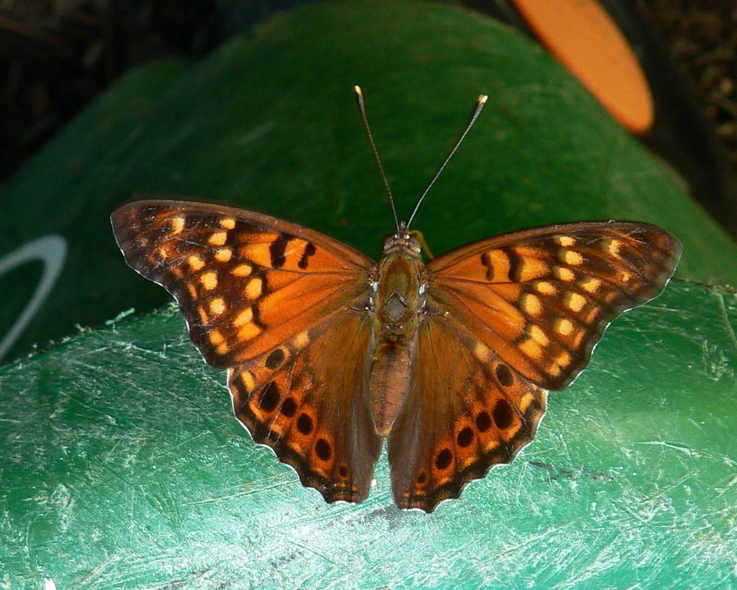 Tawny emperor dorsall view - taken in Cincinnati, OH.